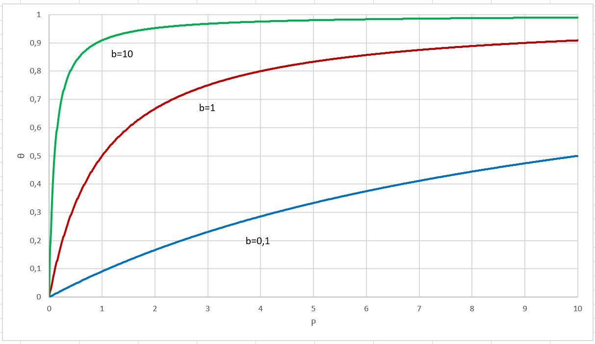 Langmuir adsorption isotherm for different adsorption coefficients